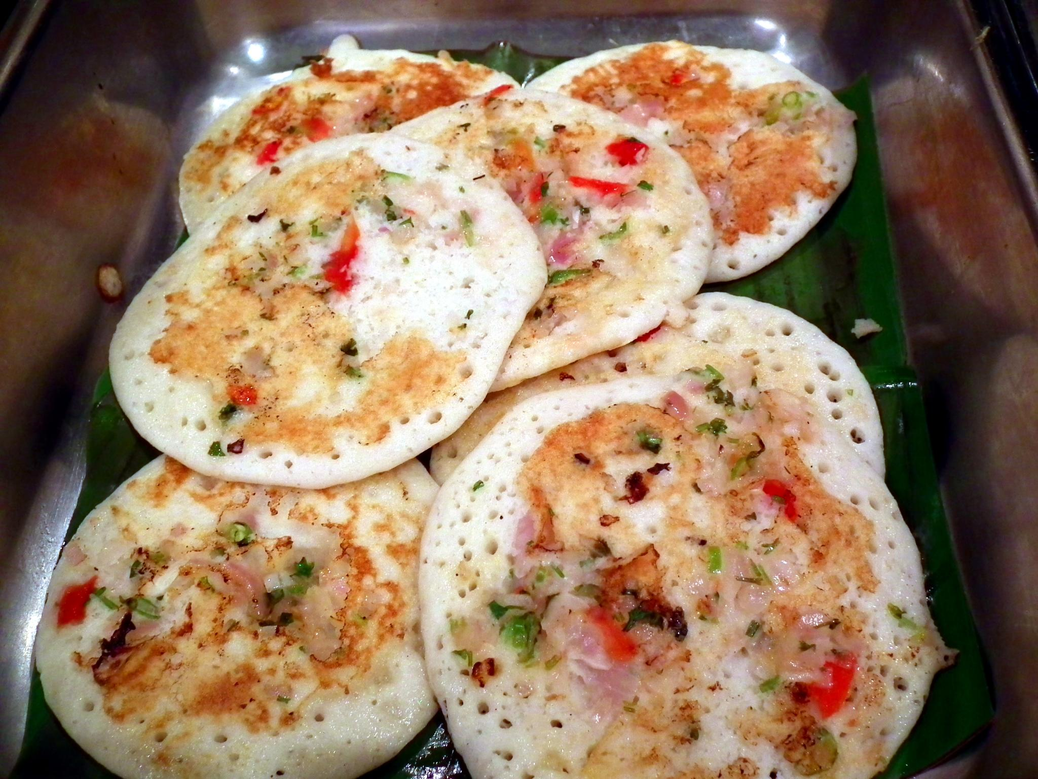 Uttapam (Tamil: ஊத்தப்பம்) (Telugu: ఉతప్పం) (Kannada: ಉತ್ತಪ್ಪಾ) is a dosa-like dish that is made by cooking ingredients in a batter. The batter is made of a 1:3 ratio of urad dal and rice (1:1 ratio of boiled to non-boiled rice) that has been fermented